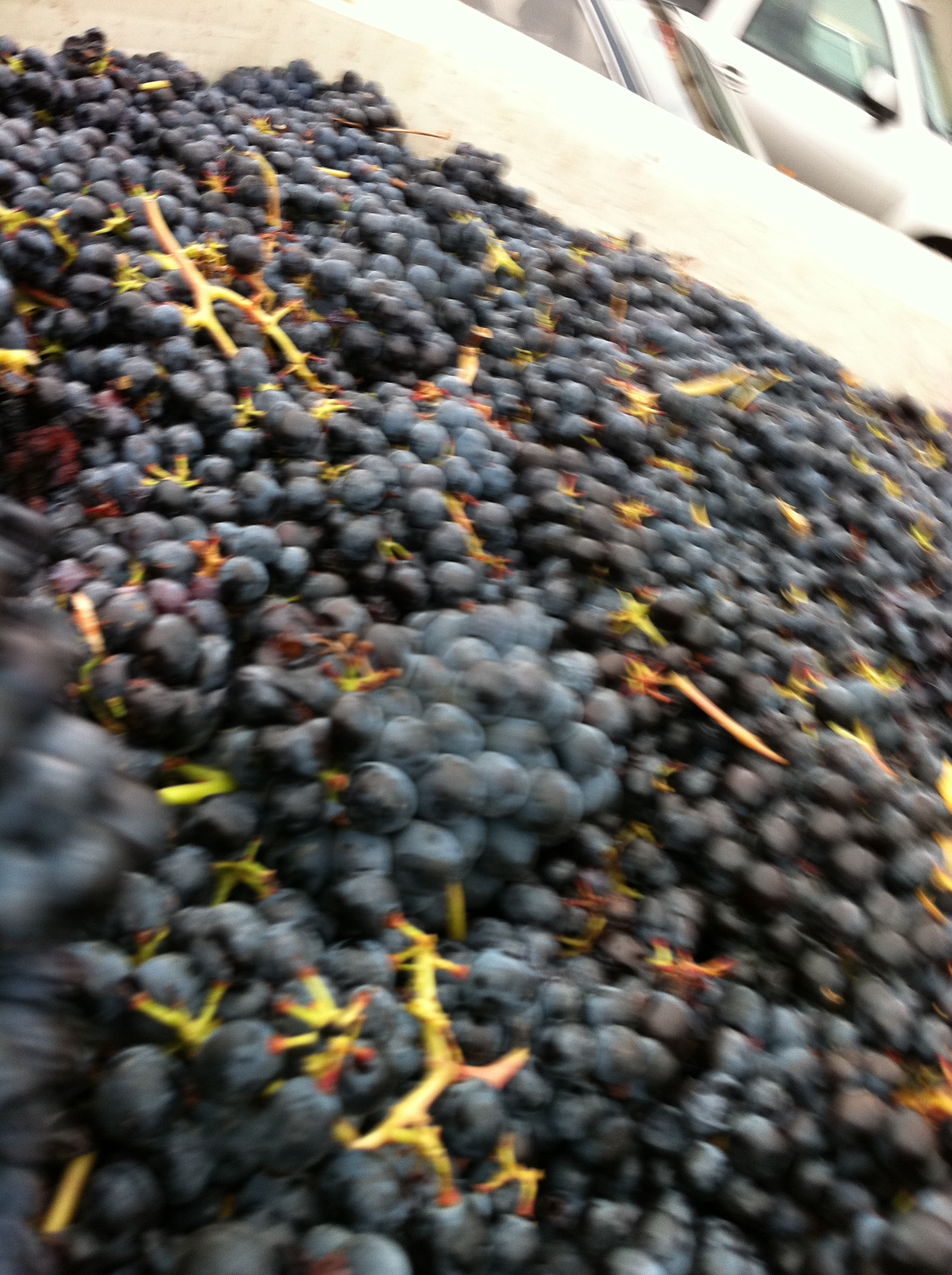 Barbera grapes grown in the Columbia Valley of Washington State